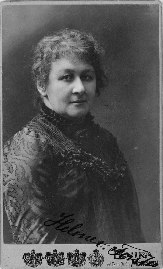 Title: Helene von Forster, half-length portrait, facing right] / Hof-Atelier Elvira Abstract/medium: 1 photographic print on carte de visite mount.